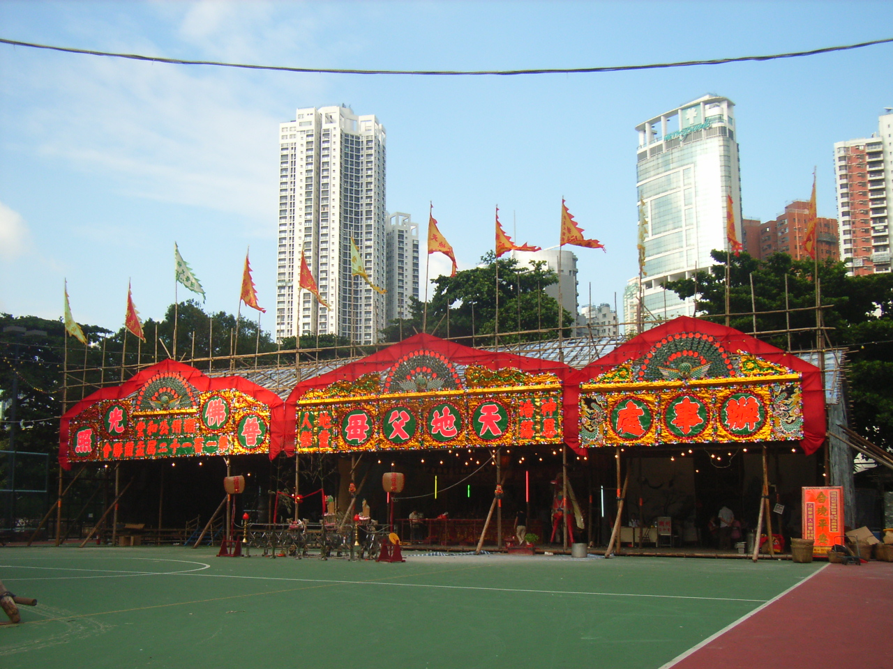 2009年9月zh:銅鑼灣摩頓台第112屆zh:盂蘭勝會 摩頓台臨時遊樂場, 背景為香港銅鑼灣維景酒店 & 栢景臺